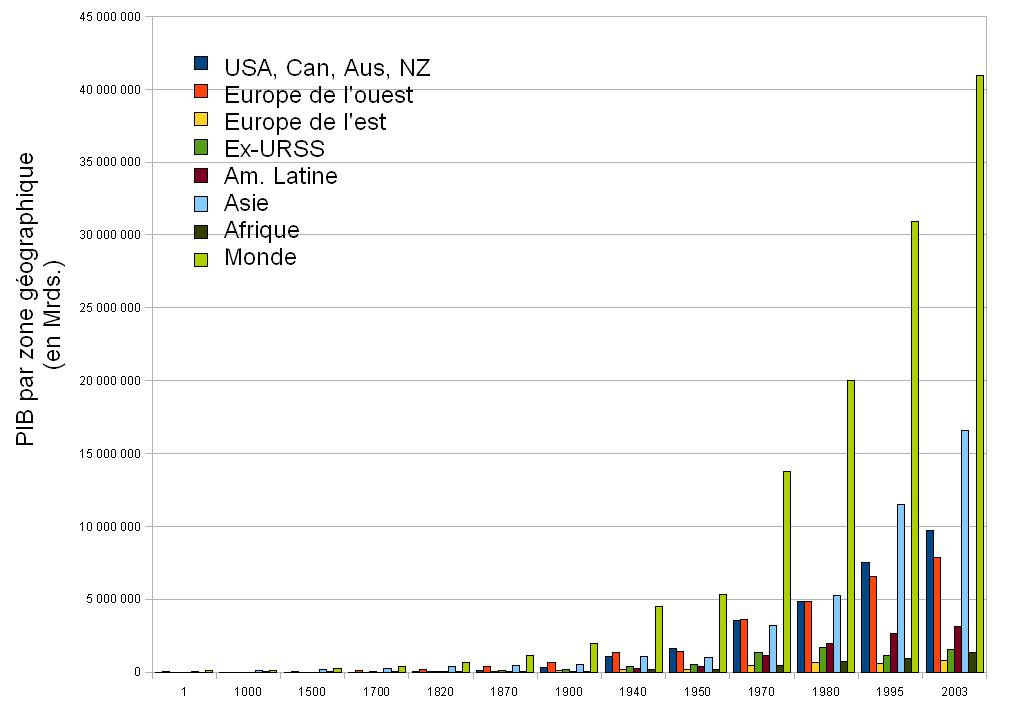 Bar chart showing the evolution of GDP from year 1 to year 2003 for large economic areas.